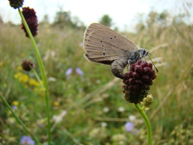 Phengaris nausithous (Maculinea nausithous) female ovipositioning on Sanguisorba officinalis (Poland)